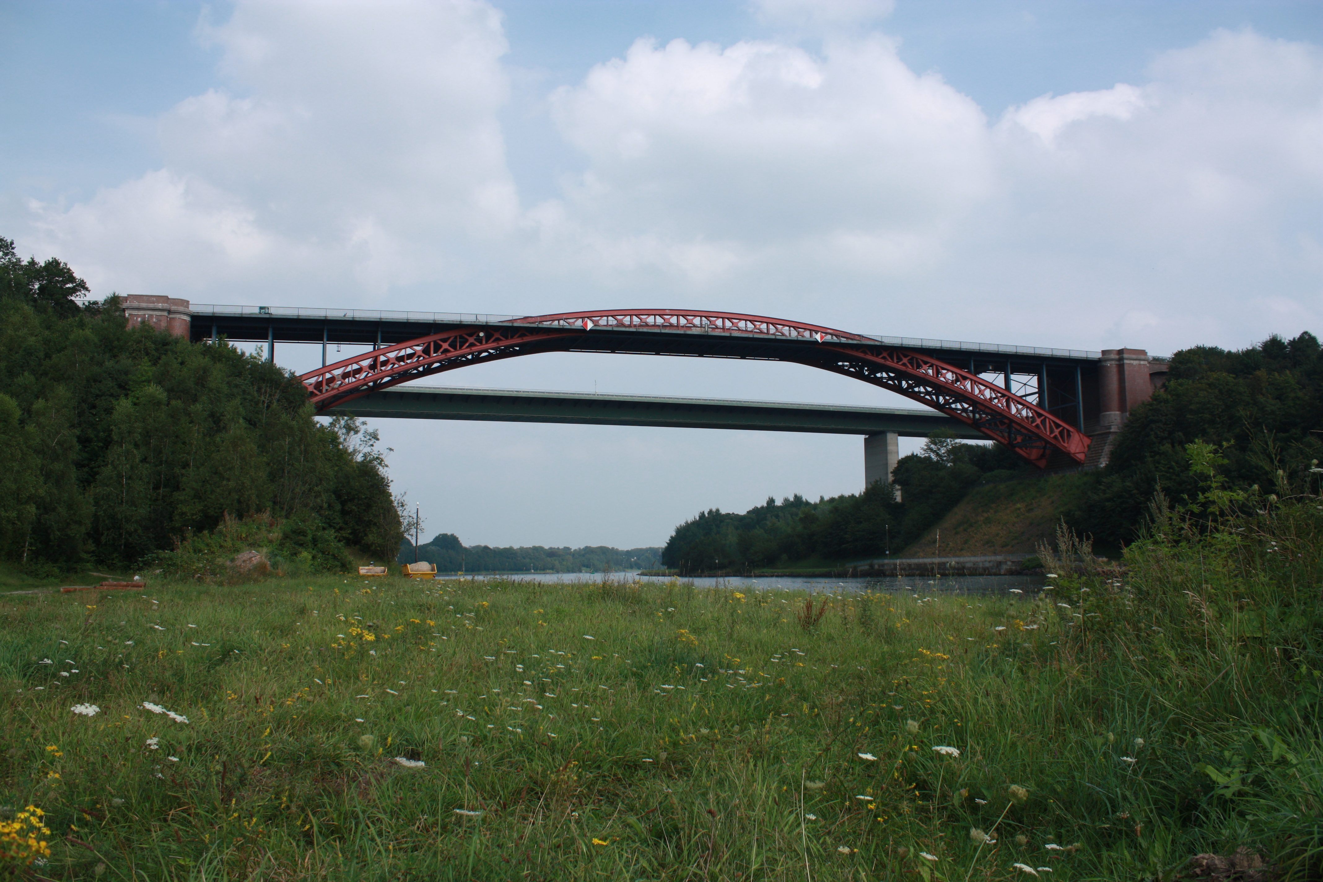 The bridge built 1893 in the foreground and the new brigde from 1984 in the background. Photo has been taken standing at the northern bank of Kiel Canal and holding the camera in the direction of northeast.